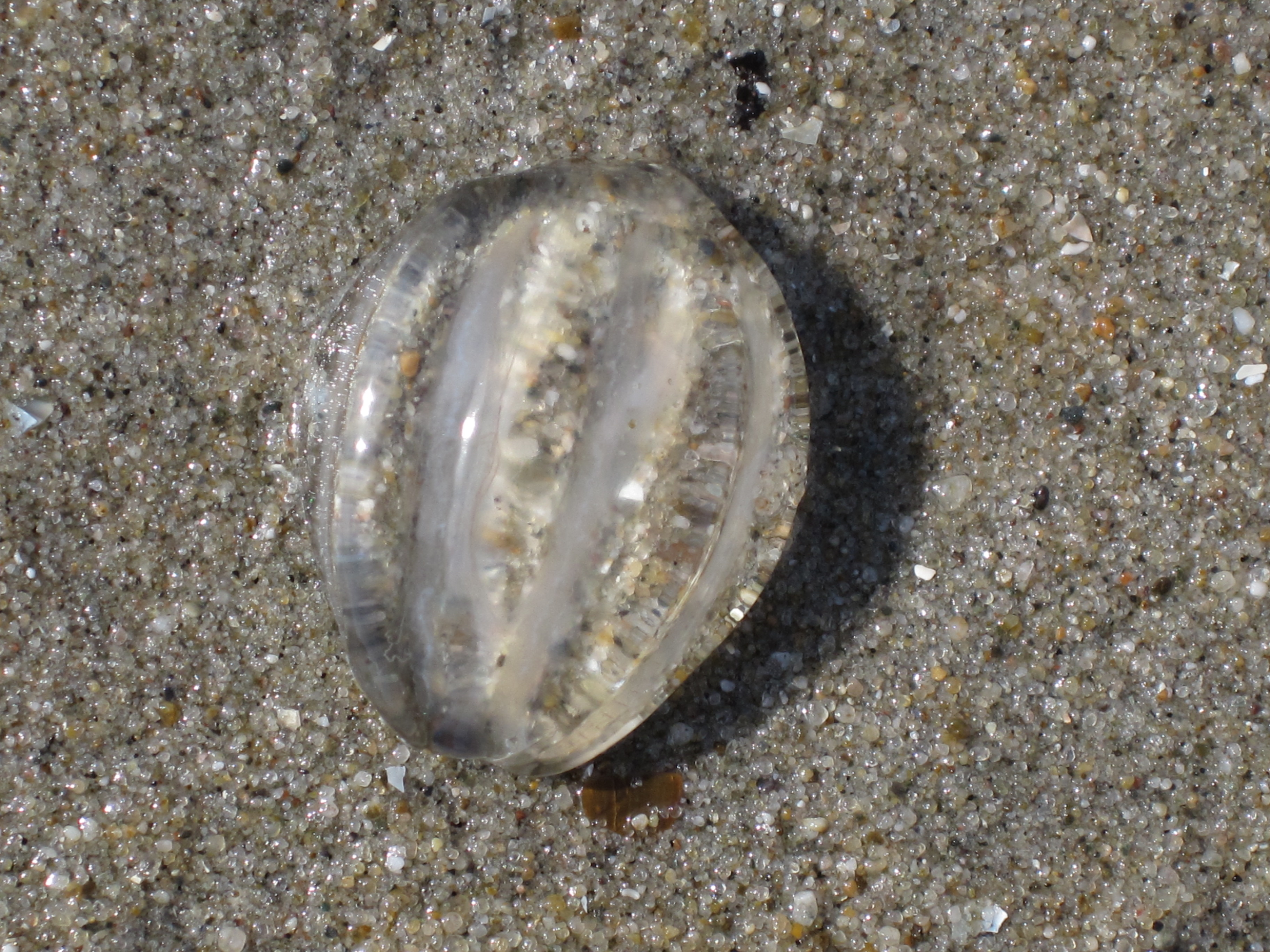 Pleurobrachia pileus (Sea gooseberry), Kijkduin, The Netherlands